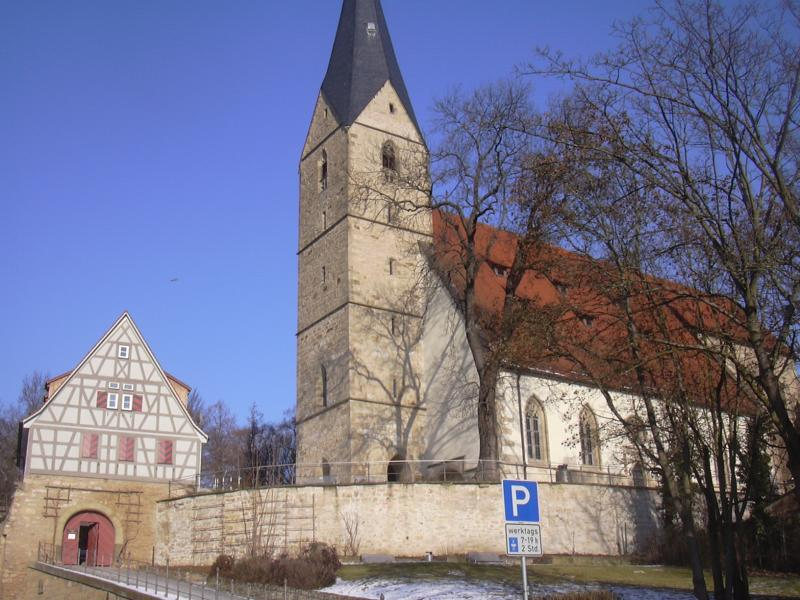 St. Alexander's church in Marbach am Neckar (Germany)